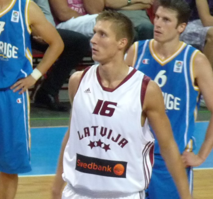 Kaspars Bērziņš (b.1985). Picture taken during friendly match between Latvia and Sweden.